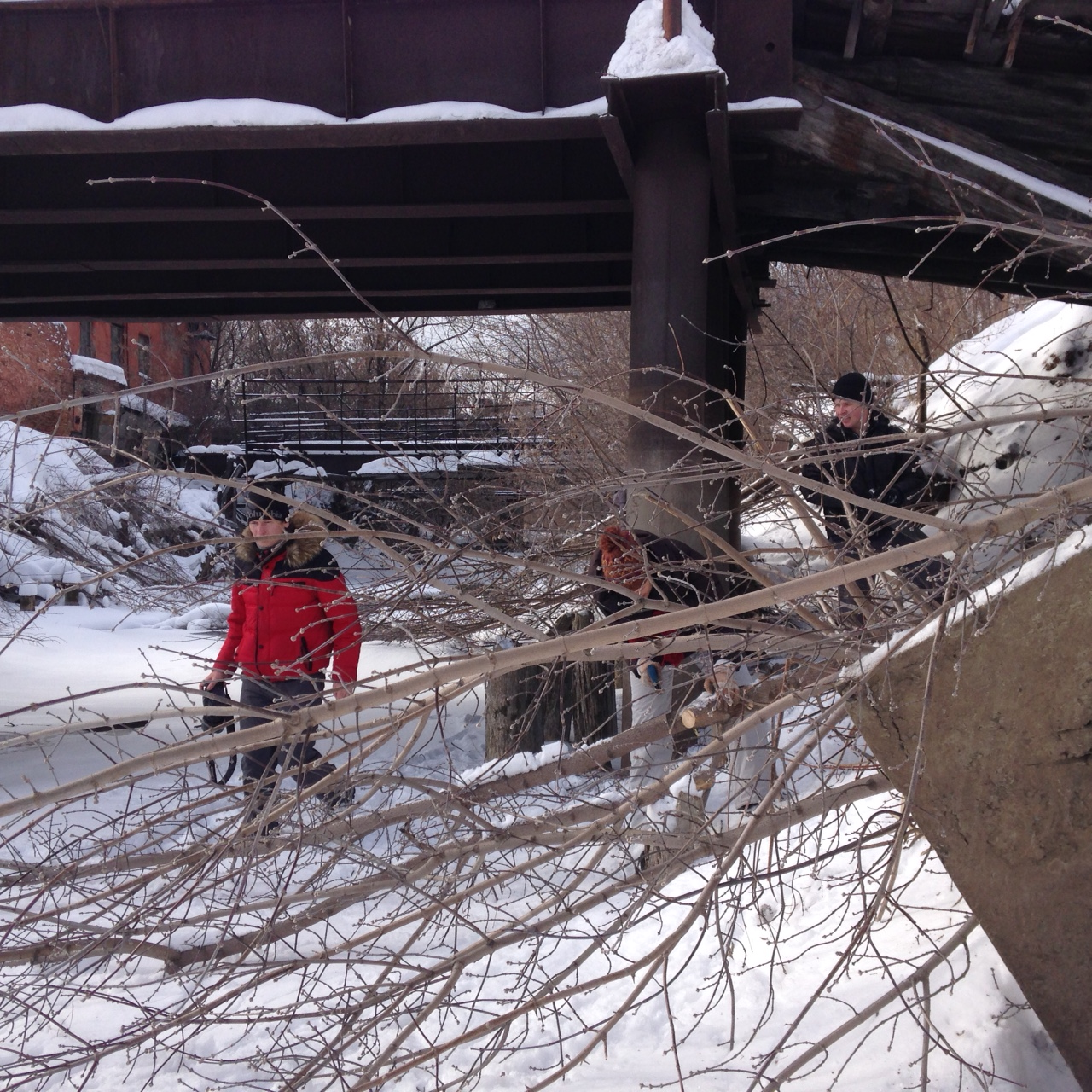 Cleaning up (Subbotnik) the former Barnaul silver plant territory on 13th of February, 2016. Cleaning banks of the river Barnaulka from the shoots of maples.